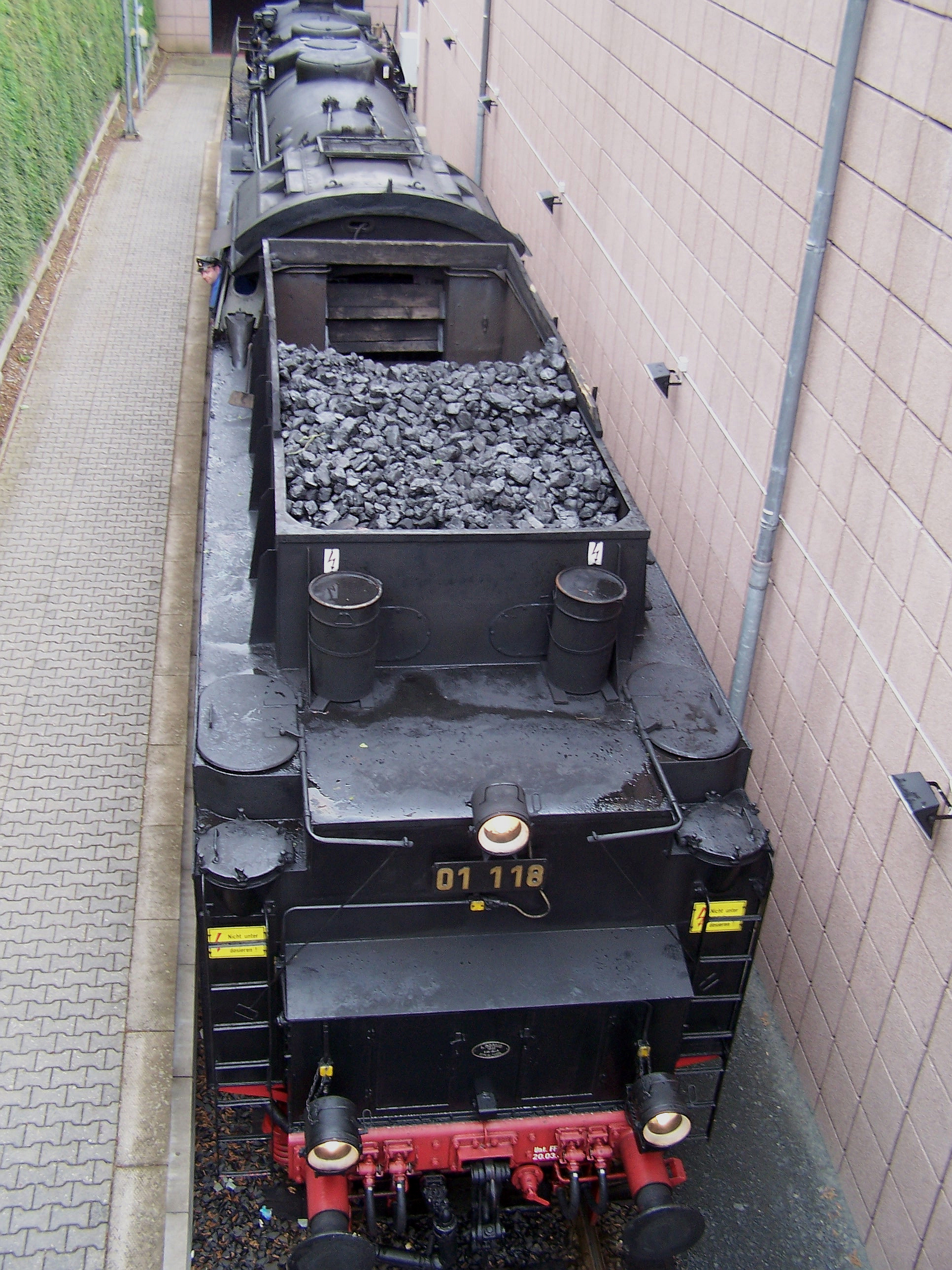 Back view from above of the DRG Class 01 No 118 of the HEF in Königstein im Taunus